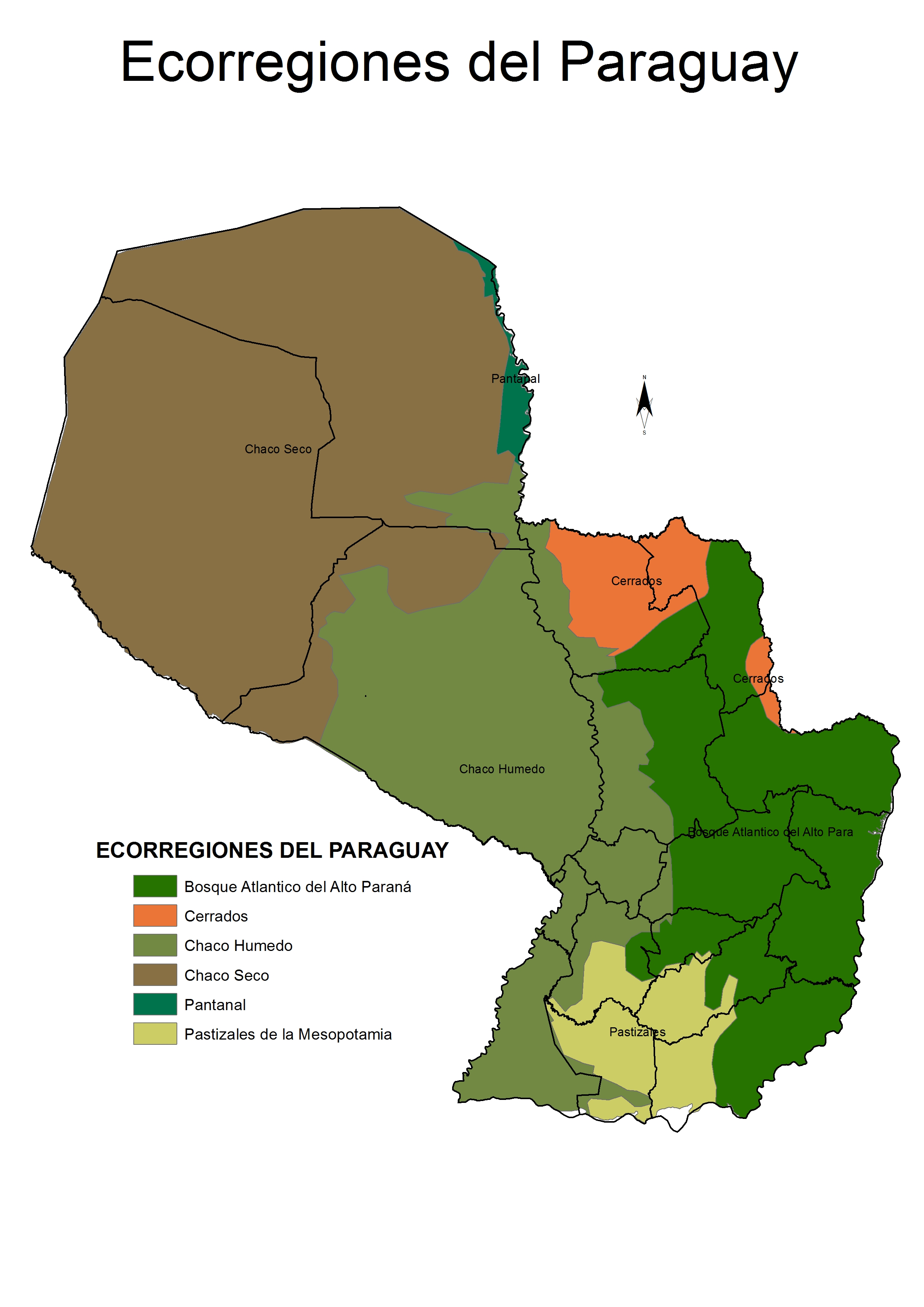 Map of Distribution of the Paraguayan ecorregions